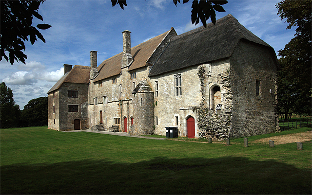 Woodsford Castle, Dorset, seen from the south